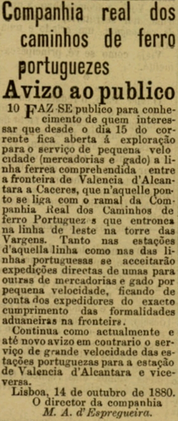 Public announcement of the Companhia Real dos Caminhos de Ferro Portugueses (Royal Company of the Portuguese Railways), informing that the railway between Cáceres and Valência de Alcântara would be opened on the 15th October 1880. This line connected to the Ramal de Cáceres (Cáceres Branch Line), in Portugal. This image was published on the Diario Illustrado newspaper No. 2664, of 15th October 1880, and scanned by the Biblioteca Nacional de Portugal.